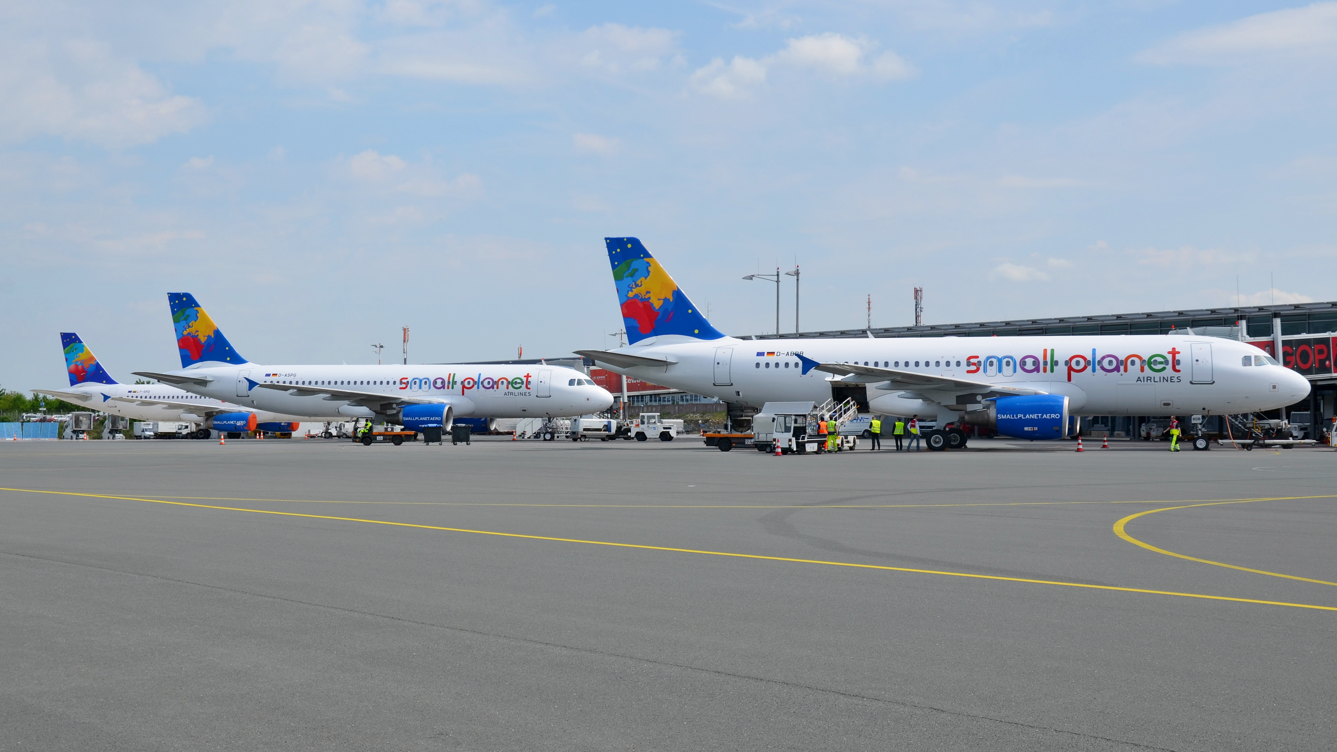 Small Planet Airlines Germany @PAD